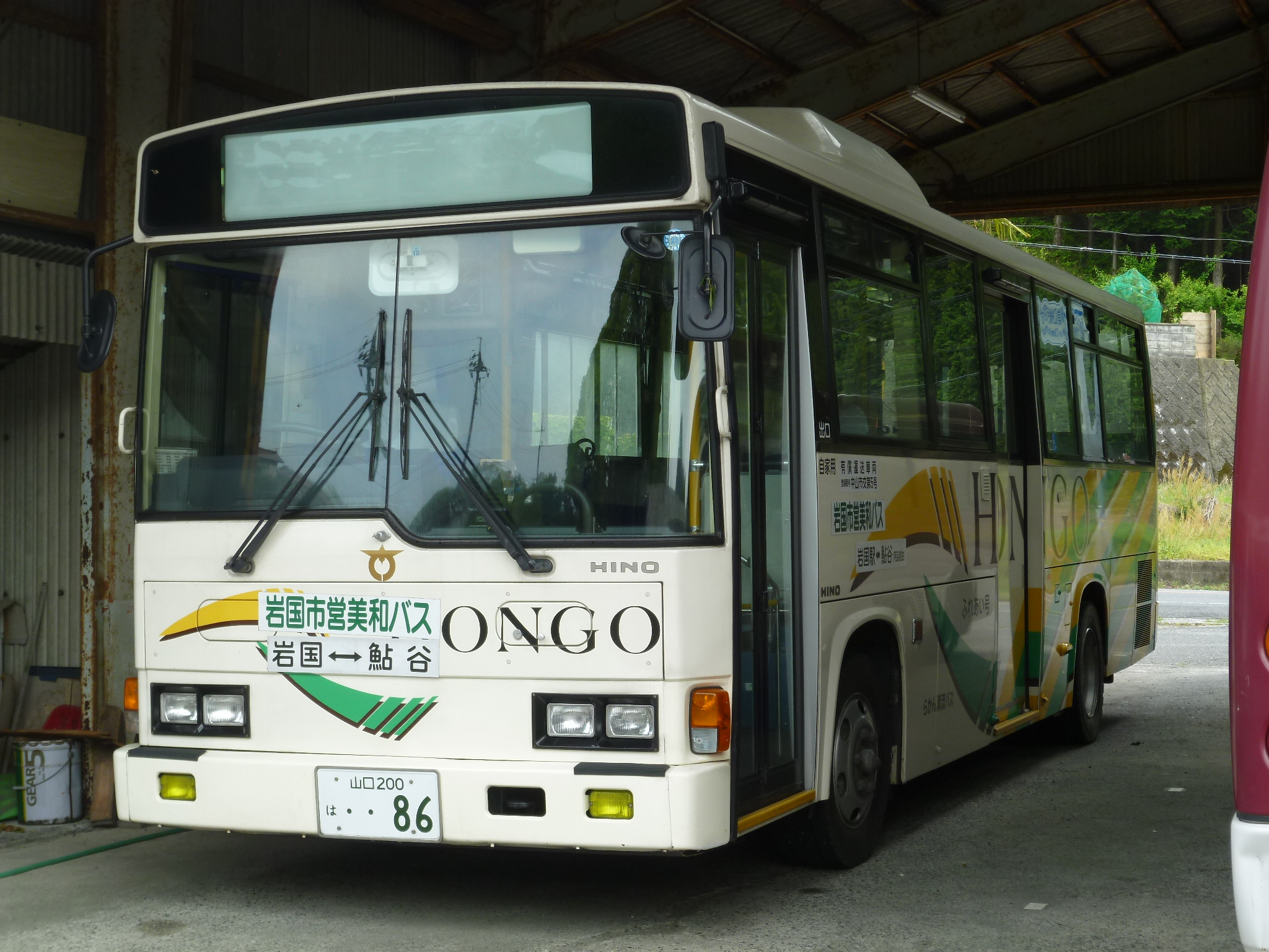 Iwakuni City Hongo Bus in Ayutani